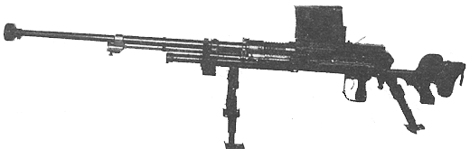 Japanese Type 97 20 mm AT Rifle. From the Second World War. from a US-Army technical manual and thus : from scanned by: Patrick Clancey